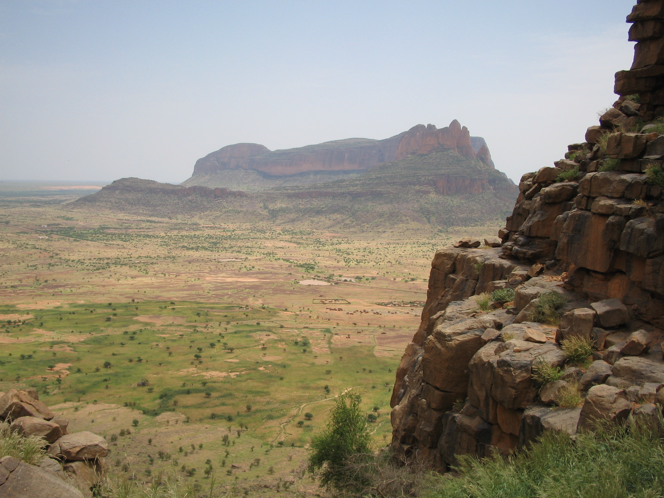 Hombori